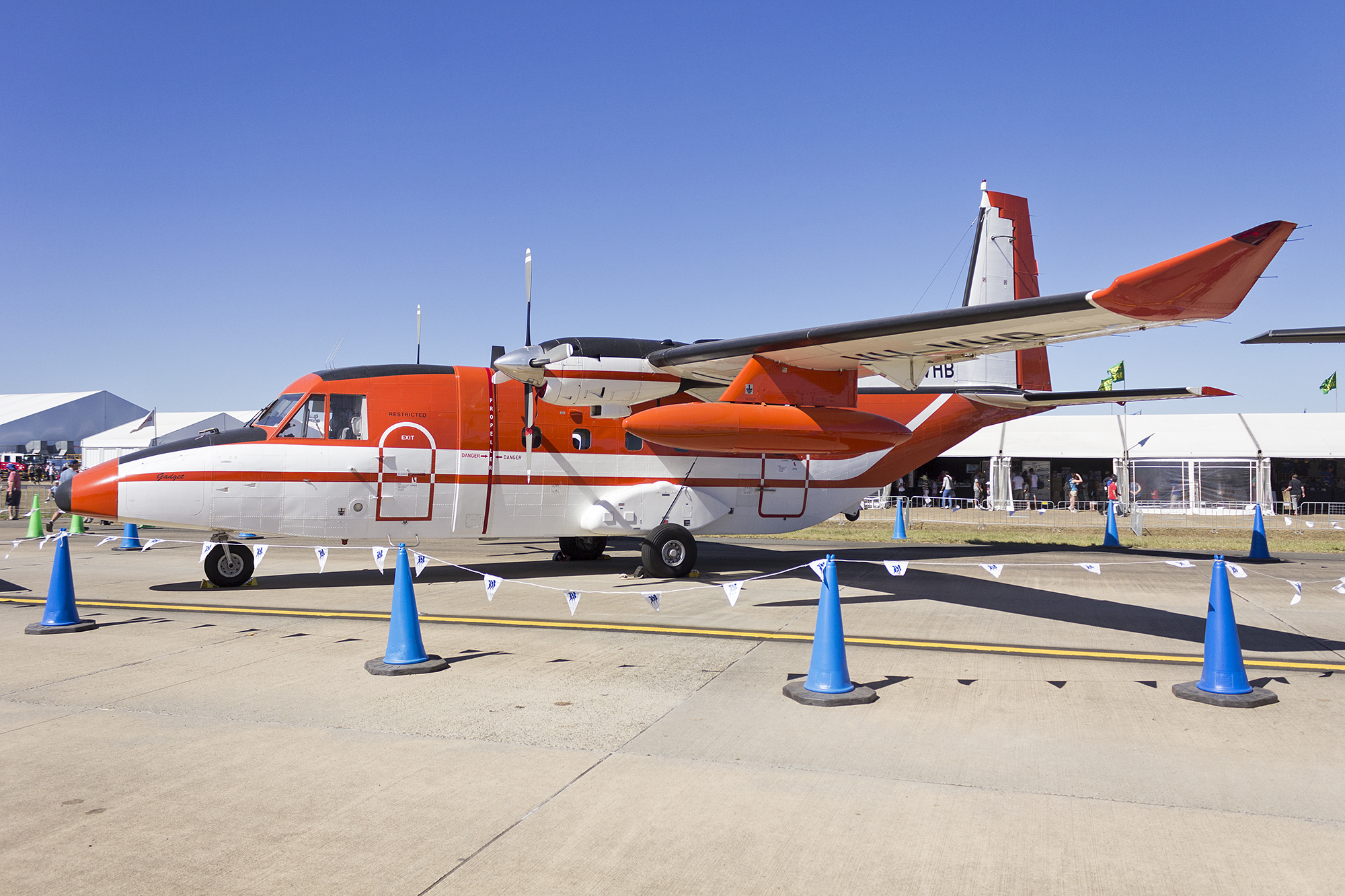 Skytraders (VH-VHB) CASA C-212-EE at the 2013 Avalon Airshow.